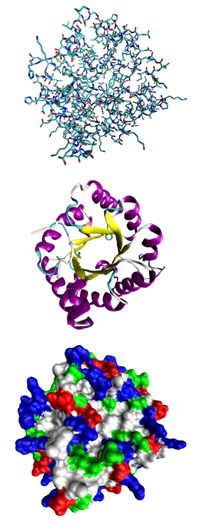 Three views of one monomer of the protein triose phosphate isomerase (PDB ID 1TIM). Left, an all-atom view colored by atom type; middle, a cartoon view colored by secondary structure; right, a solvent-accessible surface view colored by residue type (acidic residues red, basic residues blue, polar residues green, nonpolar residues white). Derived from Image:Proteinviews-1tim.png